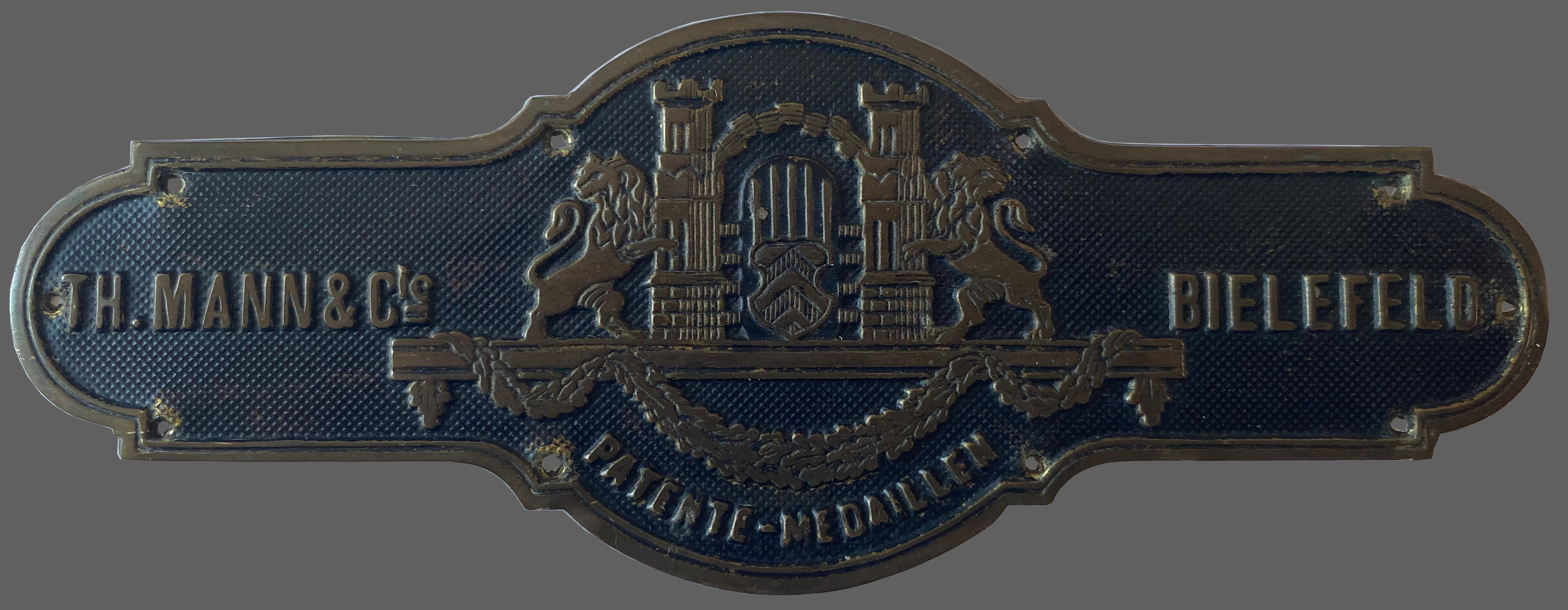 This small punched sheetmetal plaque was located on the inside of the piano lid. That Upright Piano with serialnumber 8516 was build around 1895 in Bielefeld by Th. Mann & Co.